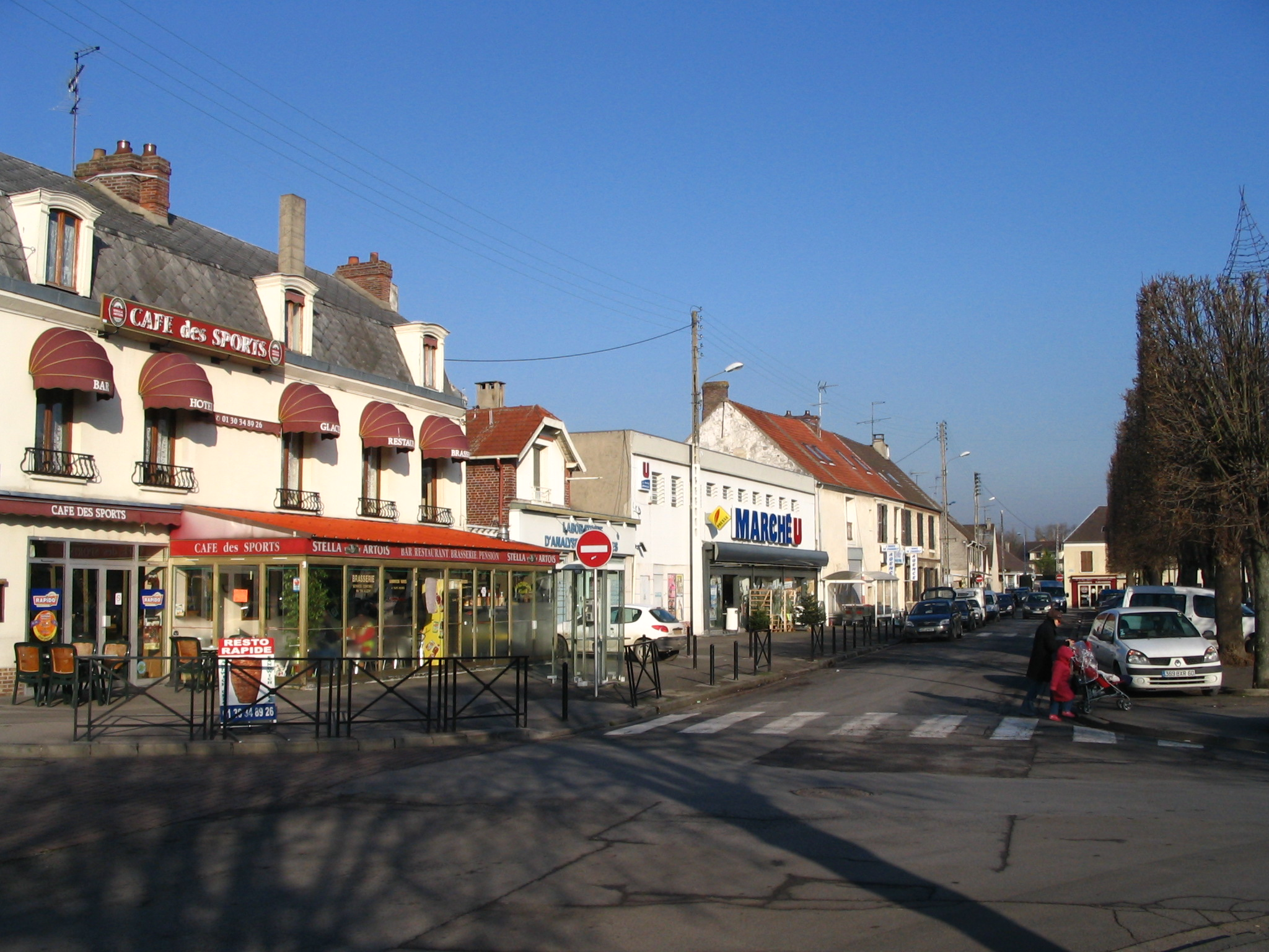 The Charles de Gaulle Piazza, in Chambly, Oise, France.